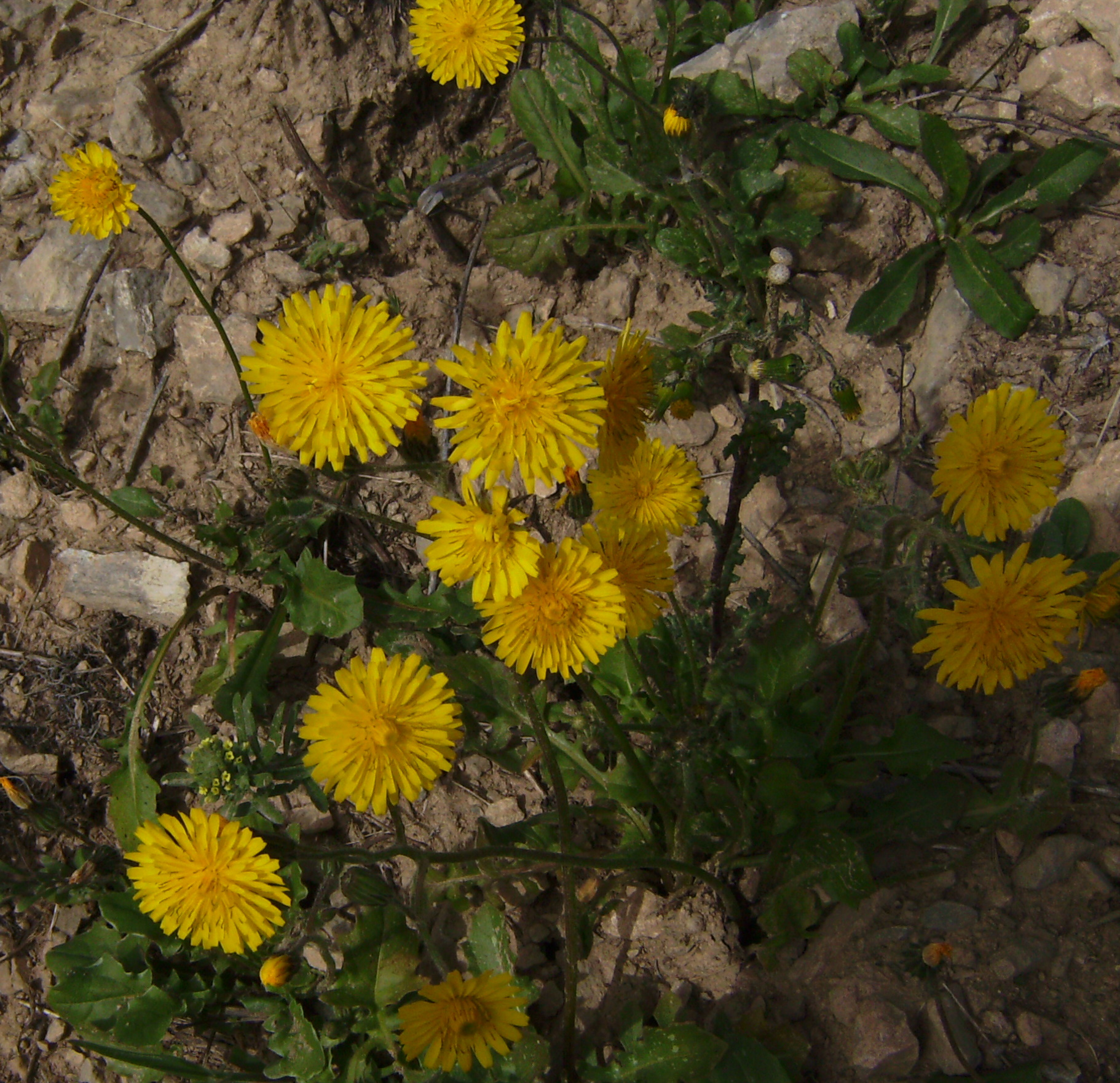 Crepis sancta plants in the wild, Castelltallat, Catalonia